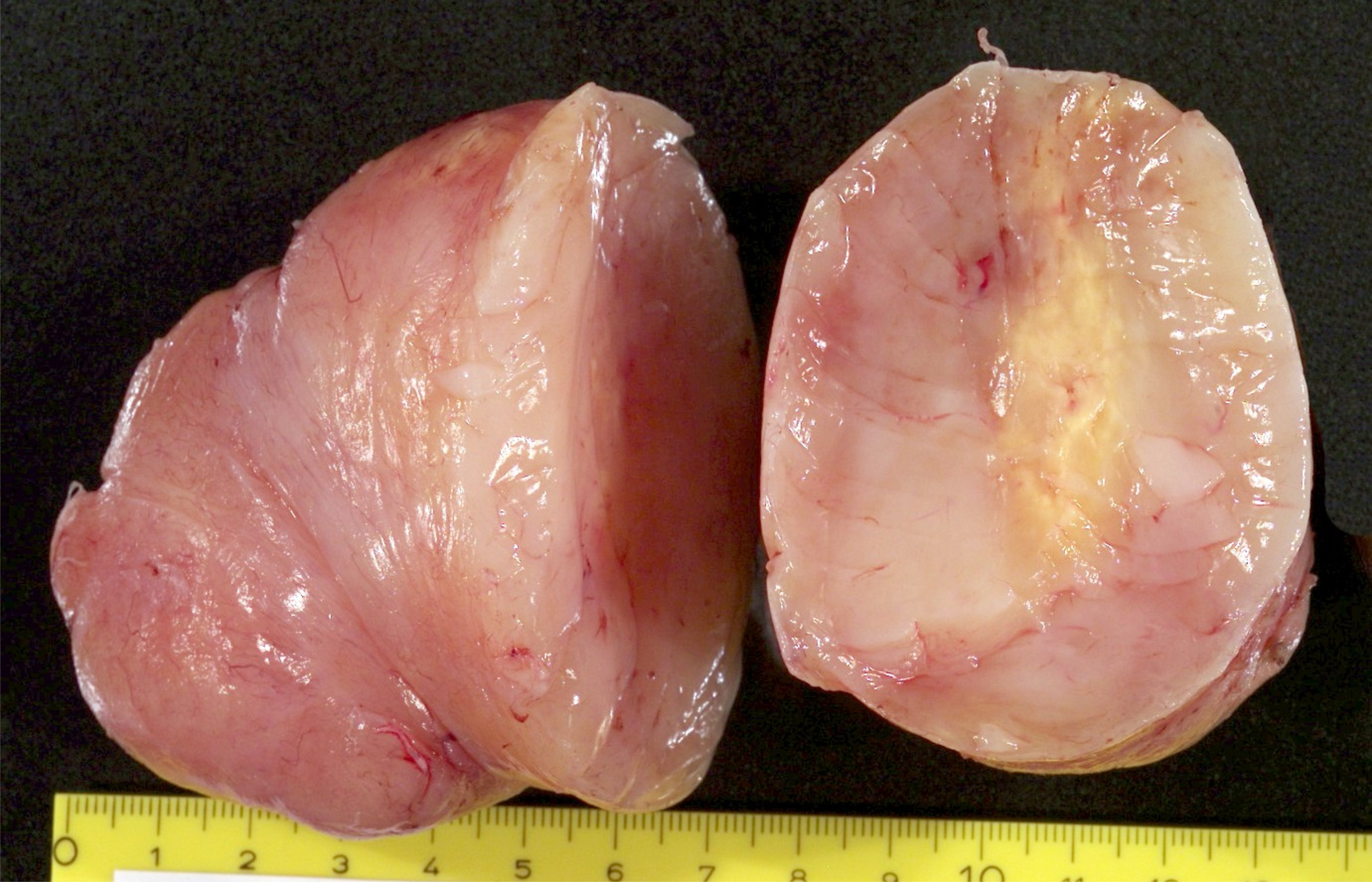 Macroscopical specimen of a Neurofibroma in a Neurofibromatosis type I patient. Such lesions can attain a considerable size.